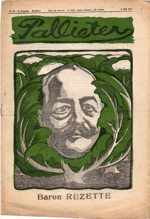 Albéric Ruzette. Front page of the Flemish magazine Pallieter (1922-1928). All front pages were designed and illustrated by Jos De Swerts (1890-1939).